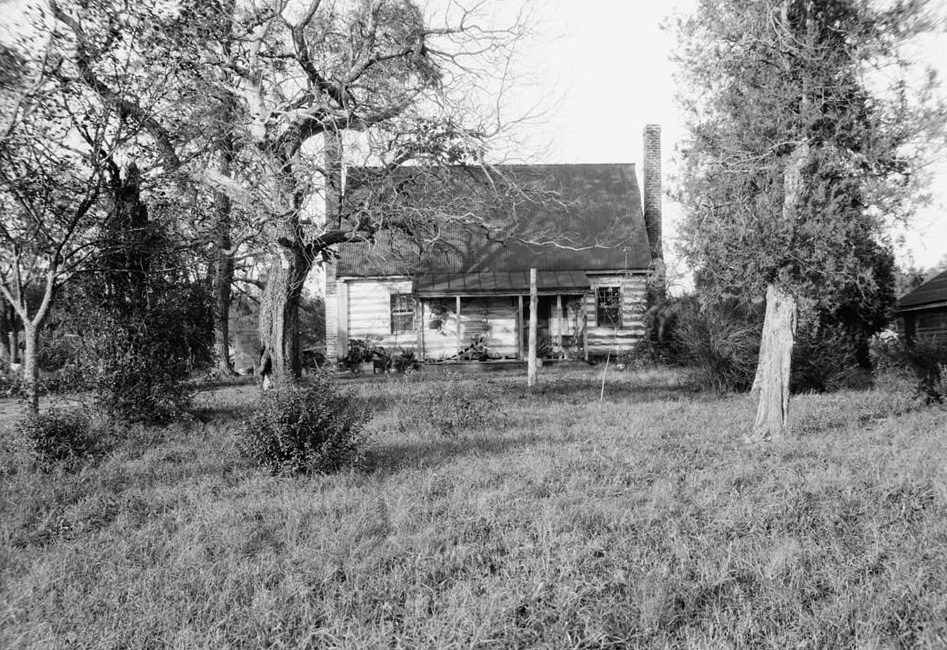 Church Quarter, State Route 738, Ashland vicinity (Hanover County, Virginia) cropped This file comes from the Historic American Buildings Survey (HABS), Historic American Engineering Record (HAER) or Historic American Landscapes Survey (HALS). These are programs of the National Park Service established for the purpose of documenting historic places. Records consist of measured drawings, archival photographs, and written reports. When reusing please credit: Library of Congress, Prints & Photographs Division, VA,43-TAYL.V,1-1 This tag does not indicate the copyright status of the attached work. A normal copyright tag is still required. See Commons:Licensing for more information. English | +/− This work is in the public domain in the United States because it is a work prepared by an officer or employee of the United States Government as part of that person’s official duties under the terms of Title 17, Chapter 1, Section 105 of the US Code. See Copyright. Note: This only applies to original works of the Federal Government and not to the work of any individual U.S. state, territory, commonwealth, county, municipality, or any other subdivision. This template also does not apply to postage stamp designs published by the United States Postal Service since 1978. (See 206.02(b) of Compendium II: Copyright Office Practices). It also does not apply to certain US coins; see The US Mint Terms of Use. This file has been identified as being free of known restrictions under copyright law, including all related and neighboring rights.